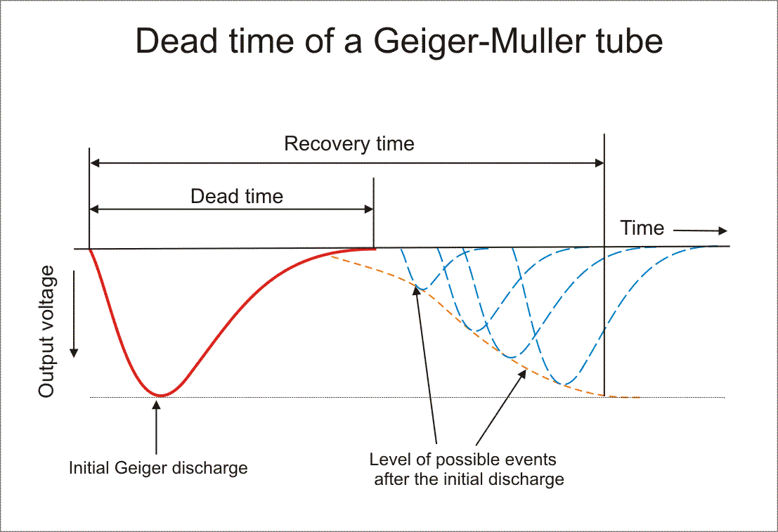 Plot showing the dead time of a Geiger Muller tube. The ability to produce further pulses after a full discharge is limited by the positive ions causing an inhibiting space charge. As these ions reach the cathode, the size of subsequent possible pulses increases, until at the recovery time a full size pulse can be created.